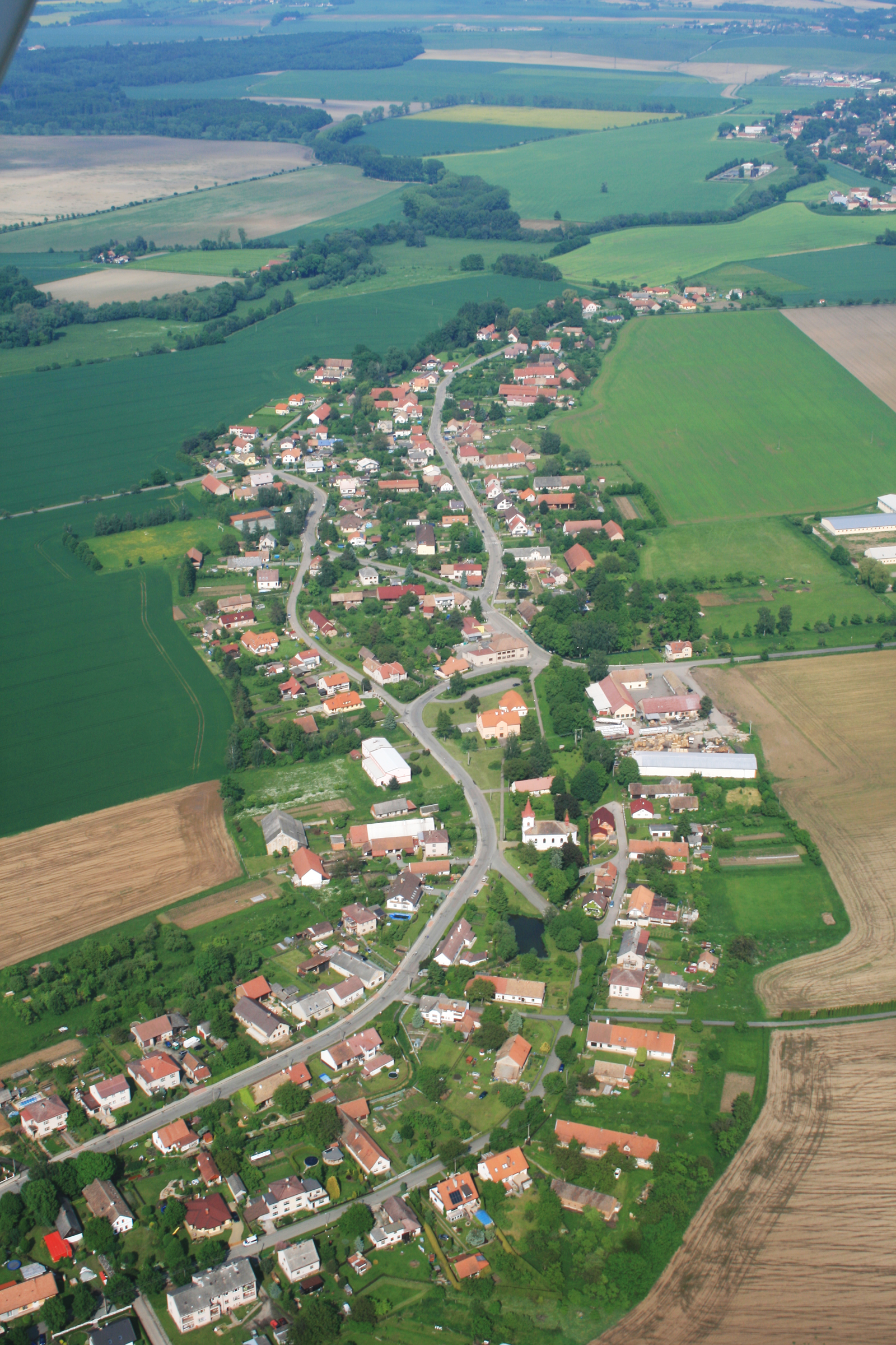 Village Pohoří- Rychnov nad Kněžnou District, from air, eastern Bohemia, Czech Republic